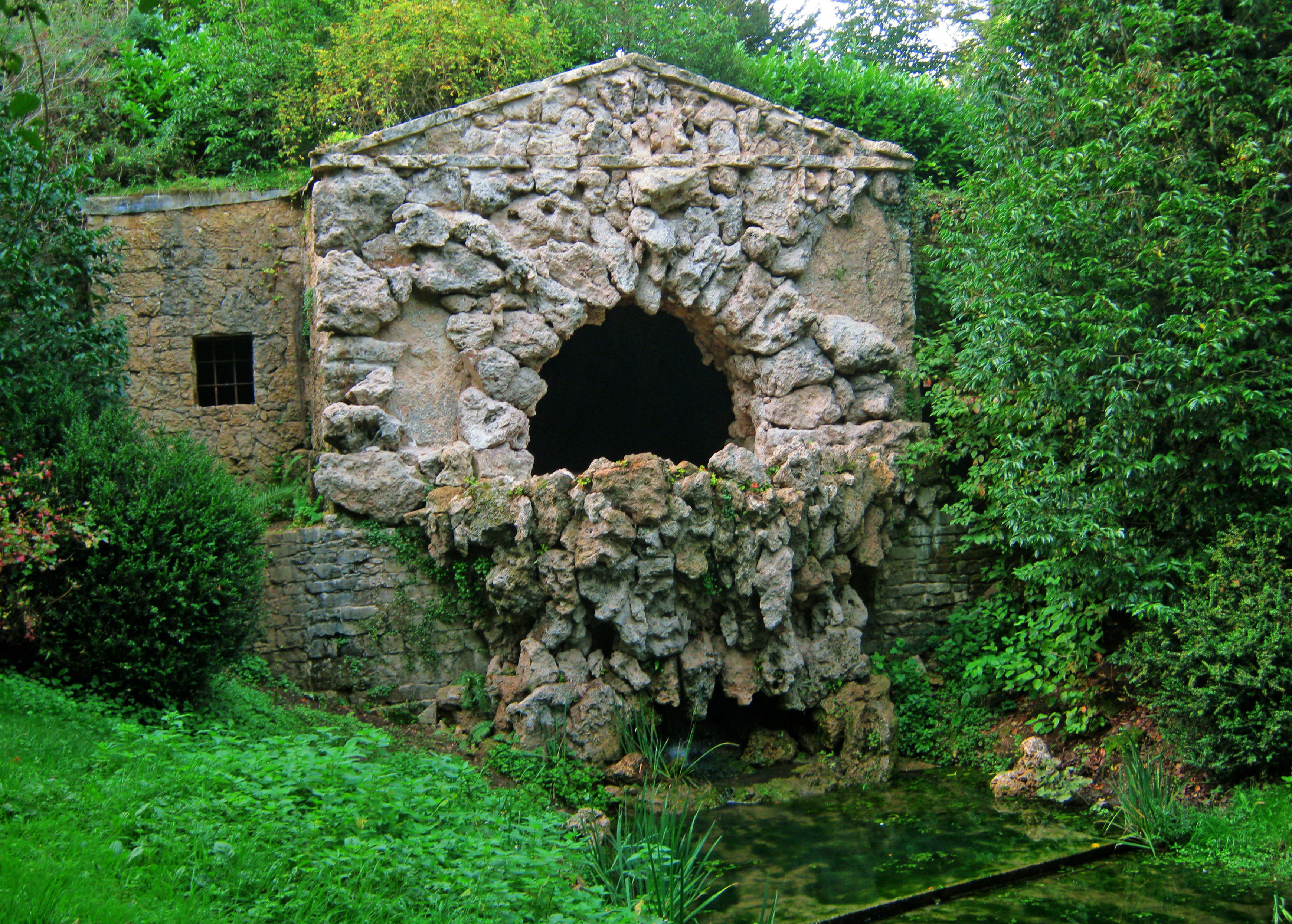 The Grotto